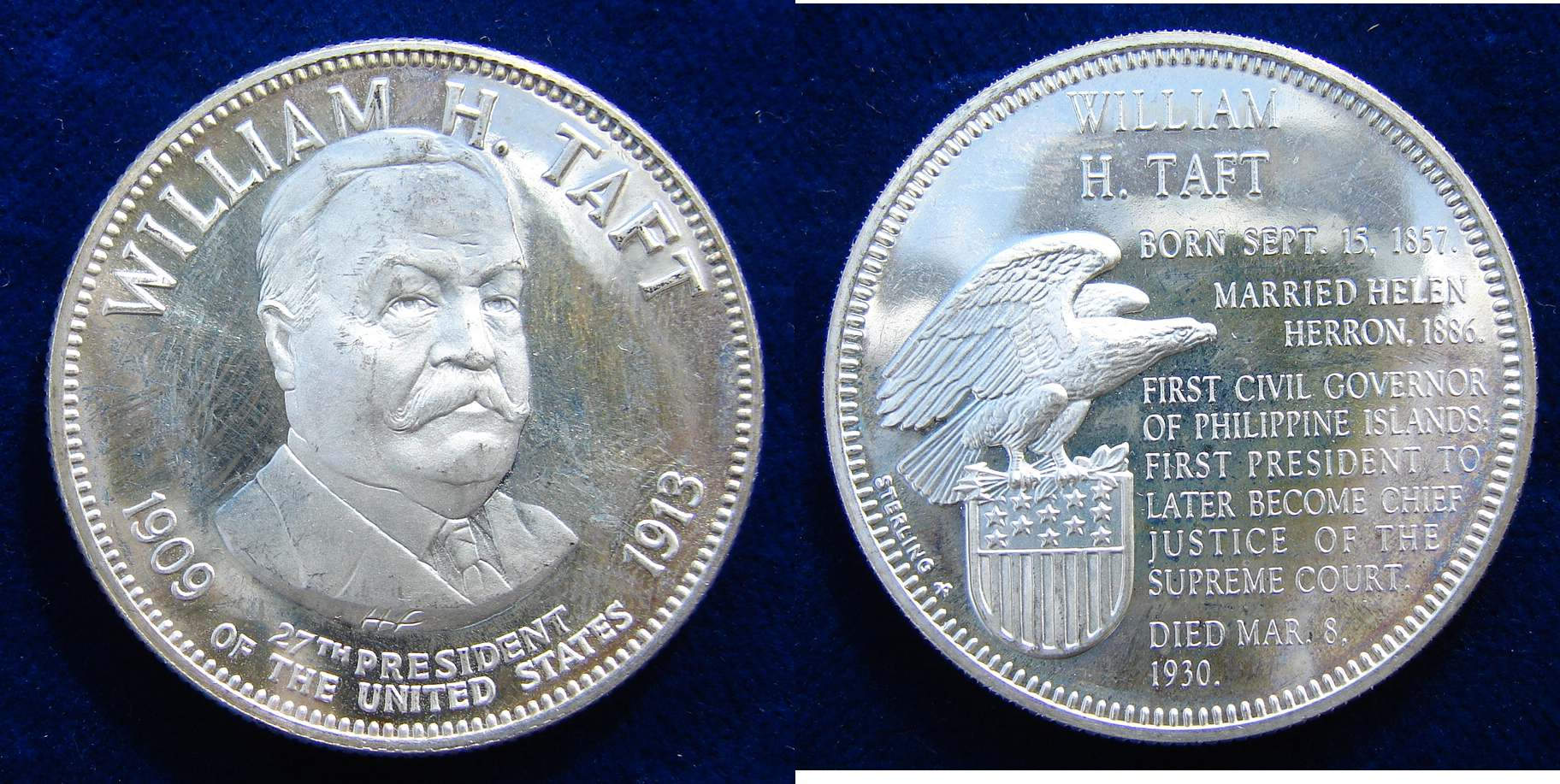 D. 39 mm, 32.87 g Sterling Silver Taft, William Howard, 27th President of the USA, and Freemason, 1857 Cincinnati, Ohio - 1930 Washington, D.C. Bust r., surrounding: "WILLIAM H. TAFT 1909 27TH PRESIDENT OF THE UNITED STATES 1913"/ L. the American Eagle r. on top of the American Shield. R. 13 lines: "WILLIAM H. TAFT BORN SEPT. 15, 1857. MARRIED HELEN HERRON, 1886. FIRST CIVIL GOVERNOR OF PHILIPPINE ISLANDS; FIRST PRESIDENT TO LATER BECOME CHIEF JUSTICE OF THE SUPREME COURT. DIED MARCH 8, 1930. Medallist : HF, Franklin Mint. Condition: UNCIRCULATED MS63, without any hidden problems like edge nicks etc